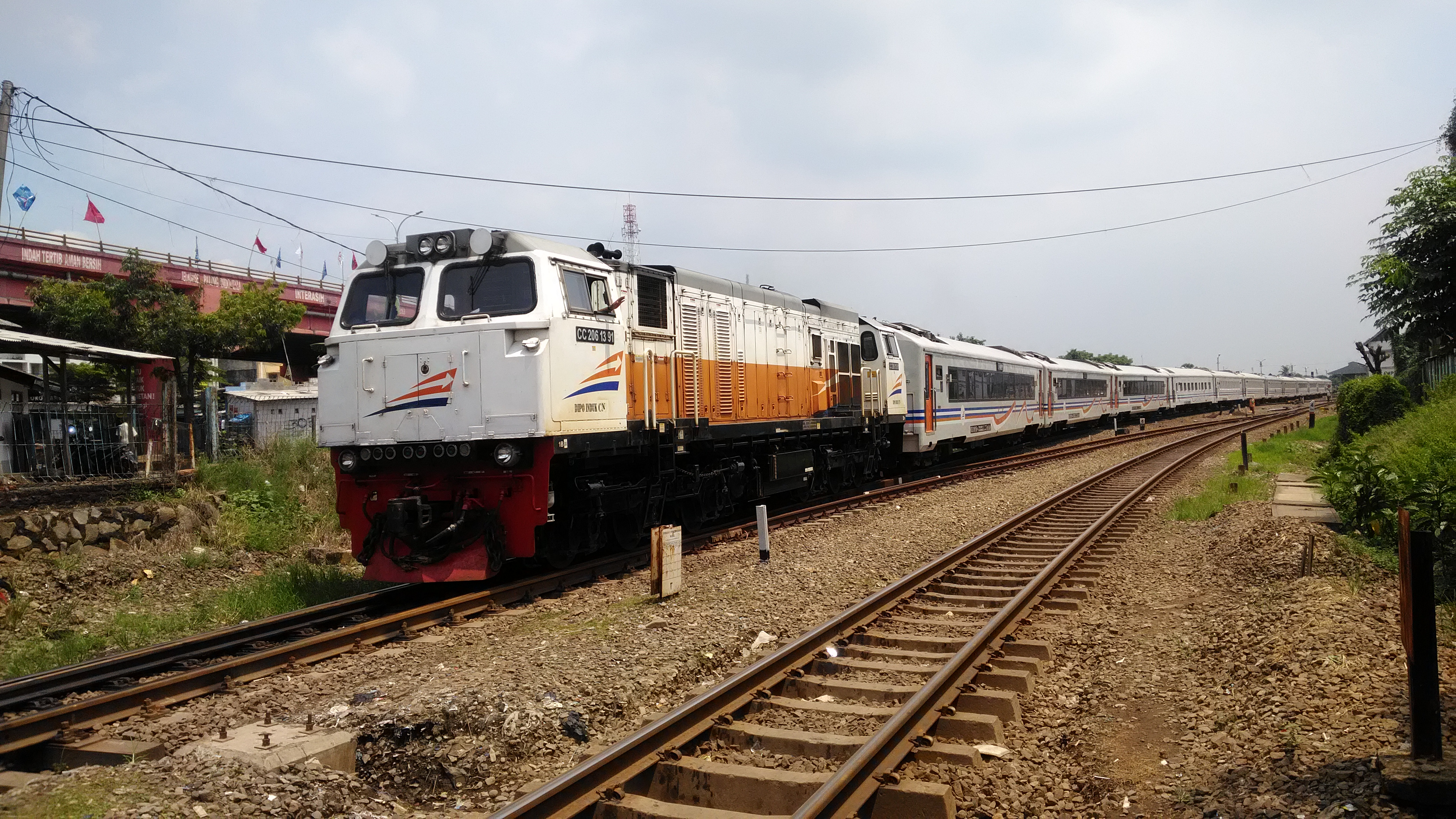 Tegal Bahari Train Crossing JPL 1 Cikampek